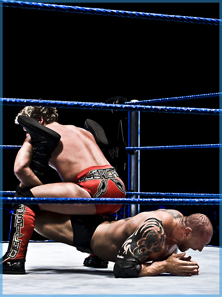 Chris Jericho applys a Walls of Jericho on Batista